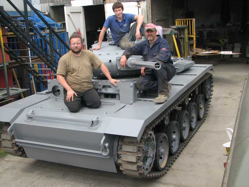 Panzer III replica built by Jon Phillips